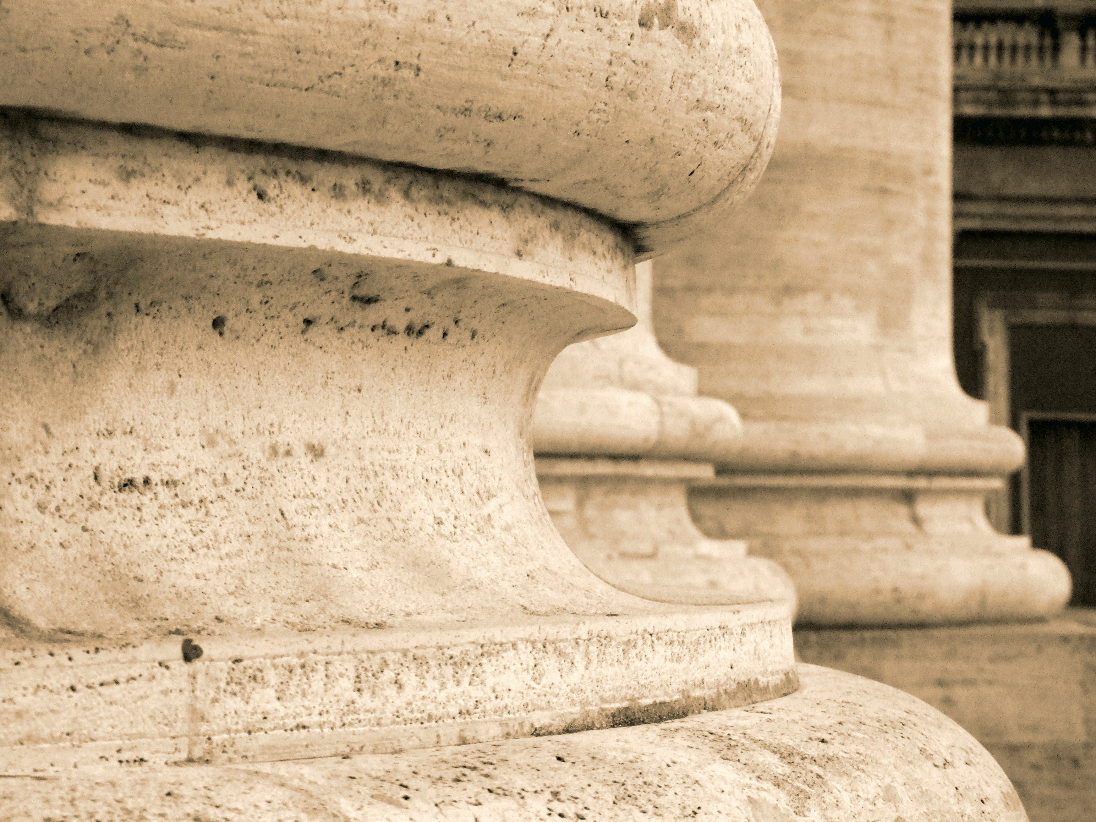 Vatican Columns St Pieter Basilica Vaticano, Vatican City, Castielli CC0